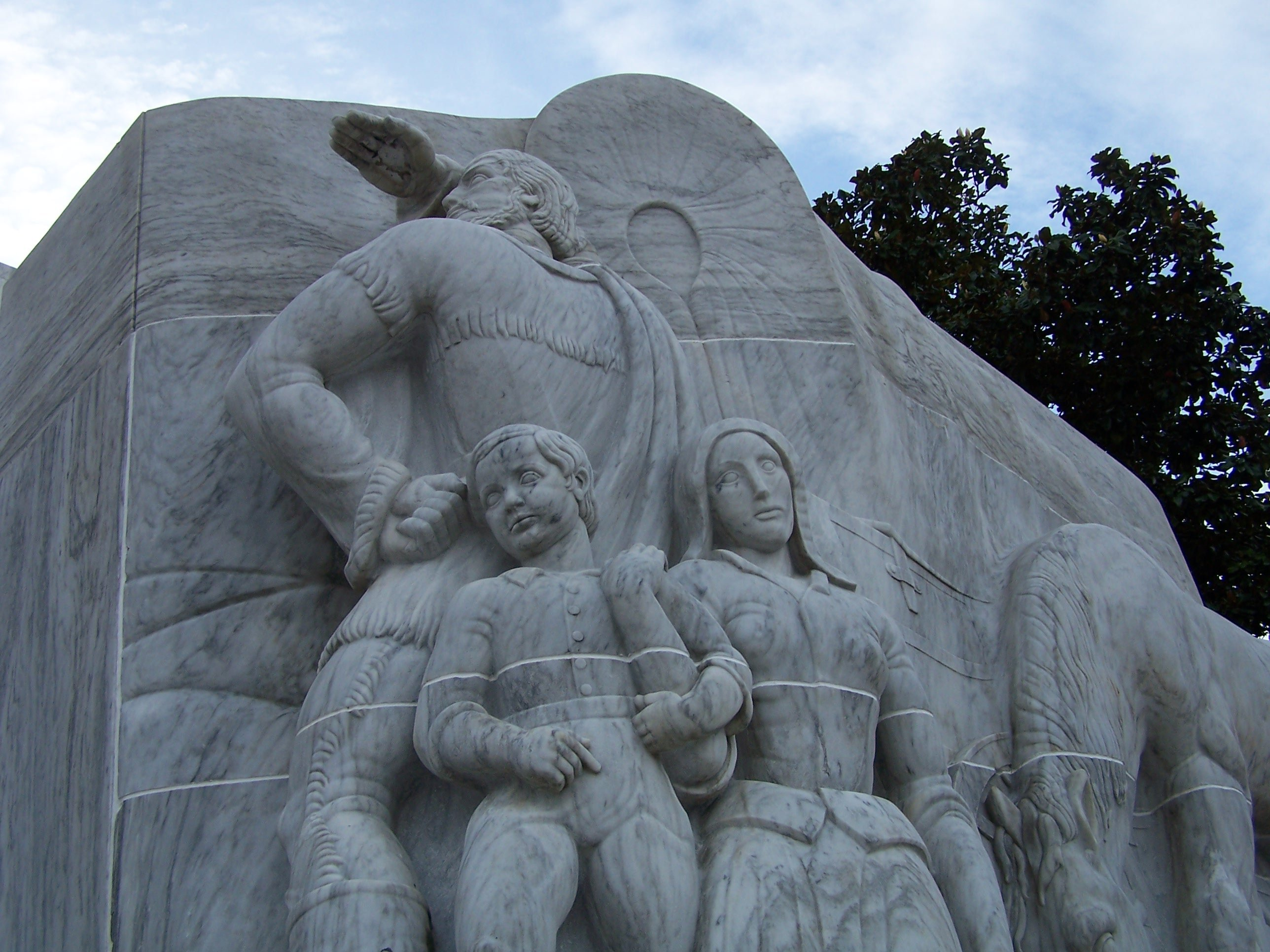 Oregon State Capitol, Steps front west side